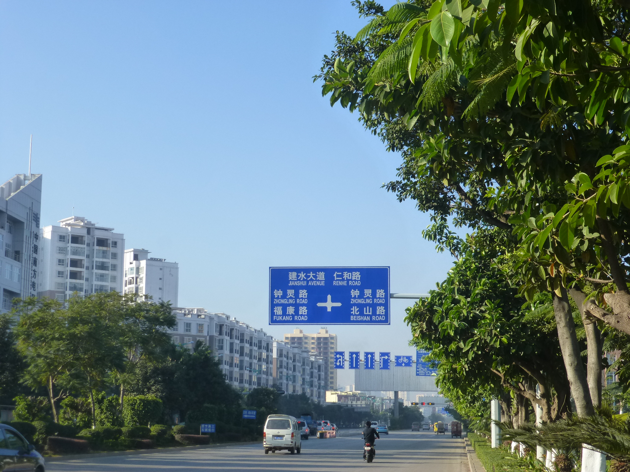 Signs on Jianshui Ave (which is also G323) in Lin'an, Jianshui County, Yunnan